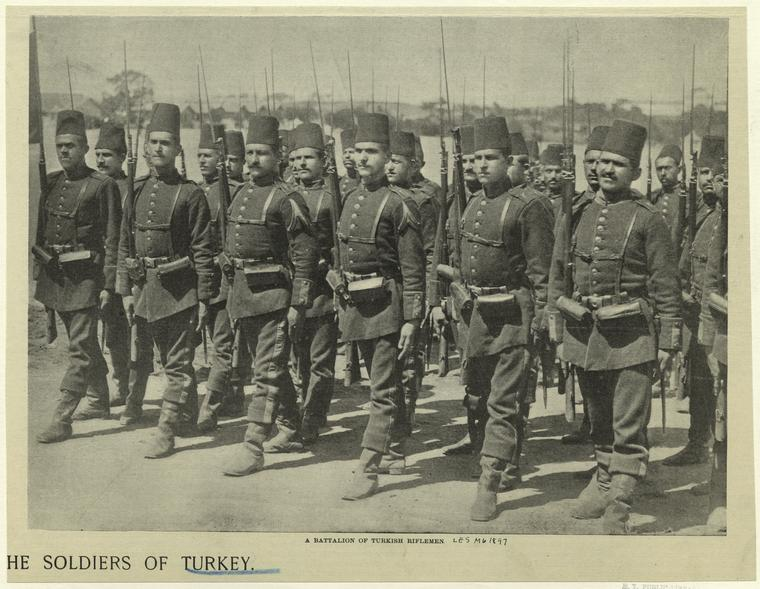 A battalion of Turkish riflemen. (1897)